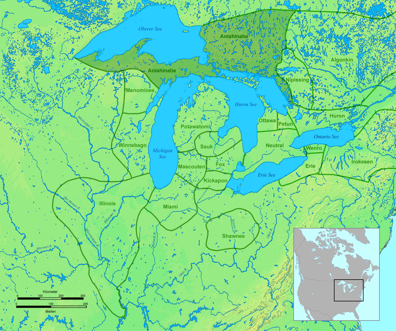 Tribal territory of Anishinabe about 1650